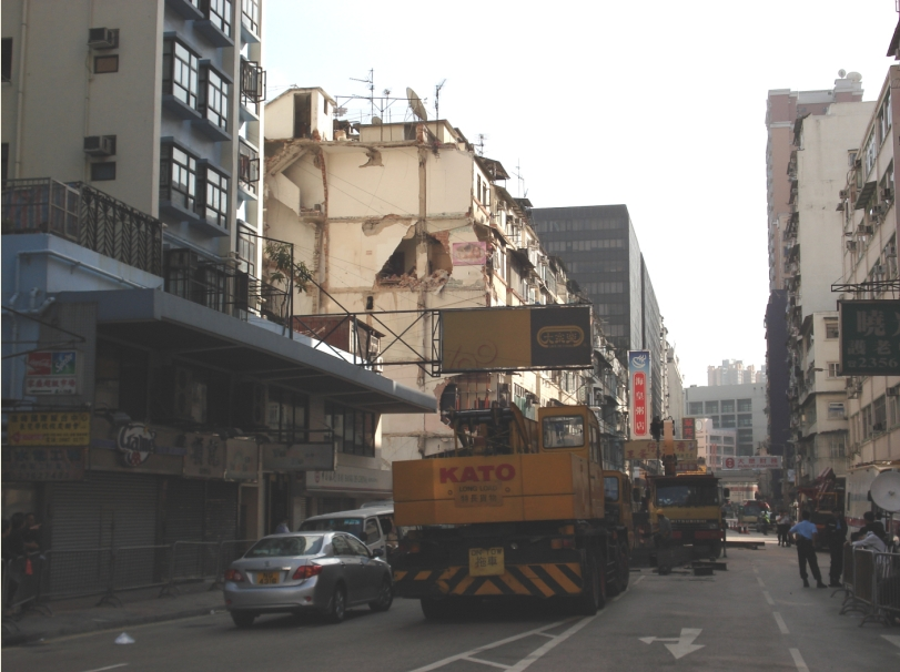 A building collapsed on 29 January 2010. The photo shows that follow-up measures were still in progress at 3:30pm on 31 January 2010, two days after the accident. Structures of buildings near the affected area were strengthened. 粵語: 2010年1月29號土瓜灣冧樓，兩日之後，善後工作夜以繼日。冧樓附近，樓宇加固。